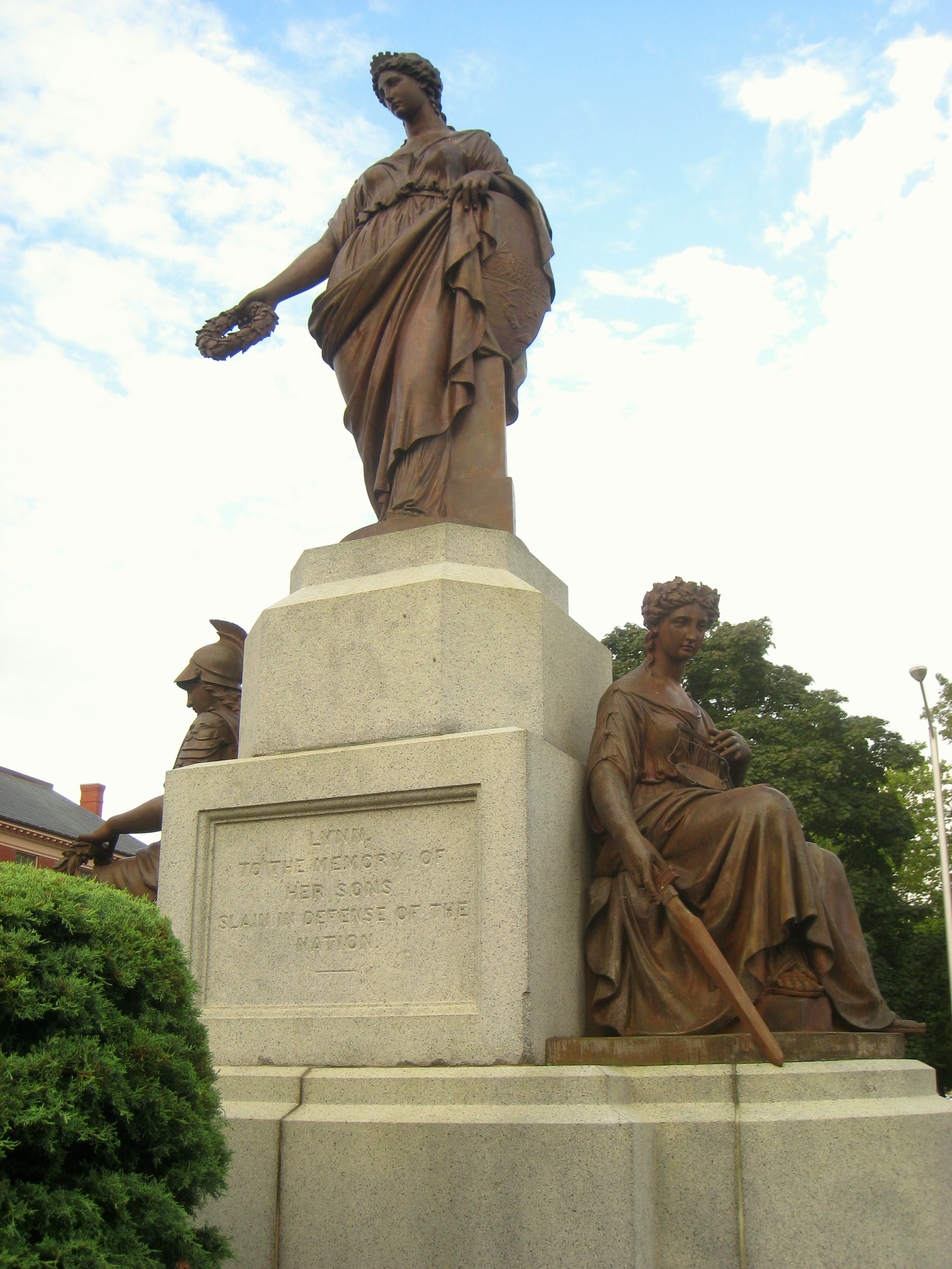 Soldiers' Monument on Lynn Common in Lynn, Massachusetts, USA.